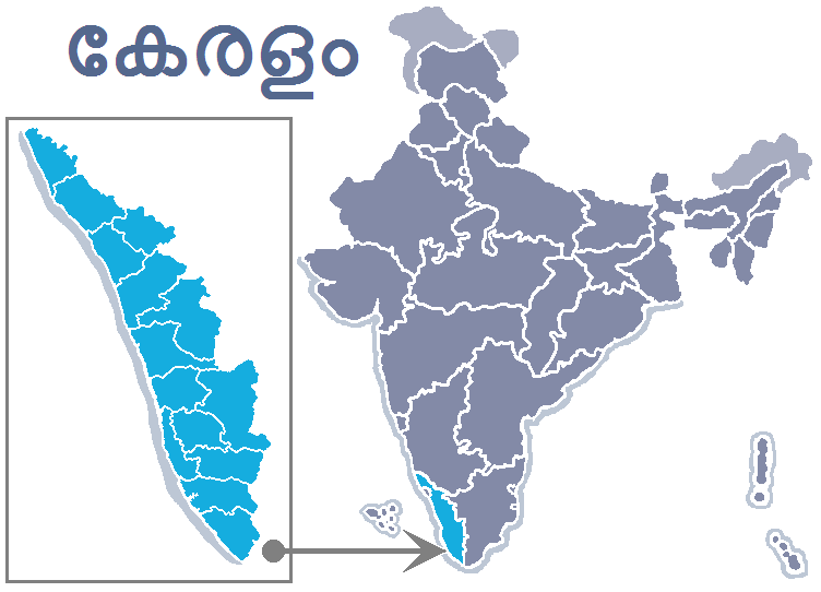 Location map showing Kerala in India.